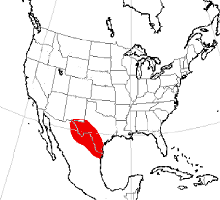 Range of Toromeryx based on fossil recovery